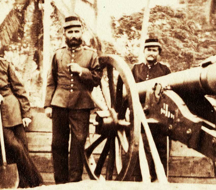 H.G. Boumeester